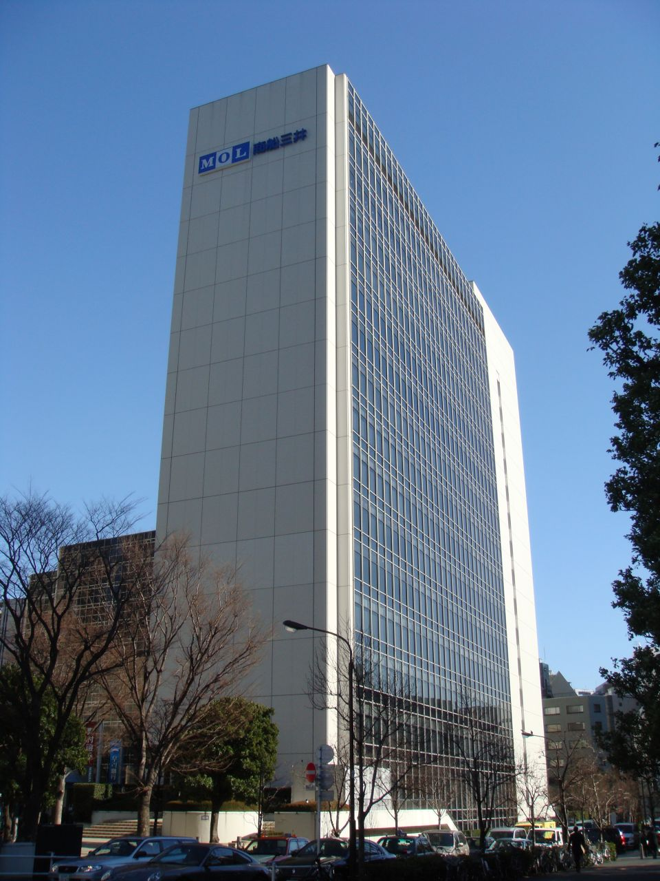 Shosen Mitsui (Mitsui O.S.K. Lines) Building, Toranomon, Minato-ku, Tokyo, Japan